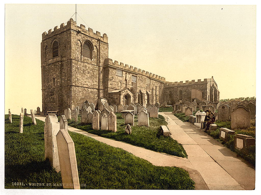 [Whitby, St. Mary's Church, Yorkshire, England] [between ca. 1890 and ca. 1900]. 1 photomechanical print : photochrom, color. Notes: Title from the Detroit Publishing Co., Catalogue J--foreign section, Detroit, Mich. : Detroit Publishing Company, 1905. Print no. "10381". Forms part of: Views of the British Isles, in the Photochrom print collection. Subjects: England--Whitby. Format: Photochrom prints--Color--1890-1900. Repository: Library of Congress, Prints and Photographs Division, Washington, D.C. 20540 USA, Part Of: Views of the British Isles (DLC) 2002696059 More information about the Photochrom Print Collection is available at Higher resolution image is available (Persistent URL): Call Number: LOT 13415, no. 1097 [item]